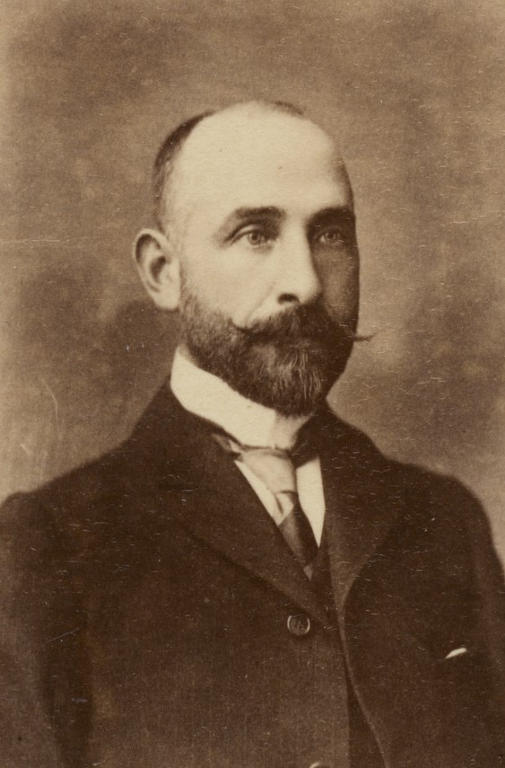 Portrait of Edward Lucas (Australian politician).